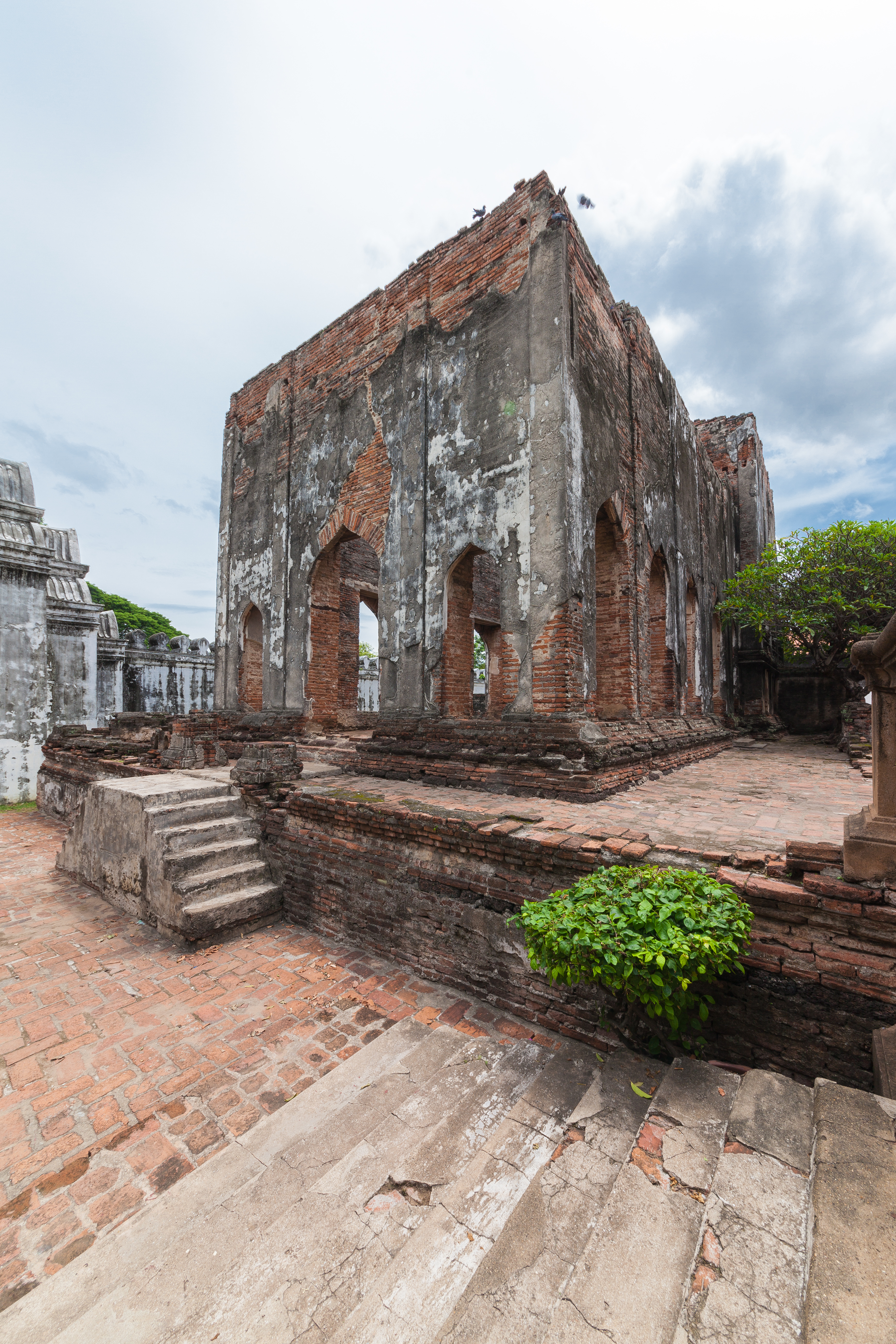 Dusit Sawan Hall at Narai Ratcha Niwet, Lopburi.